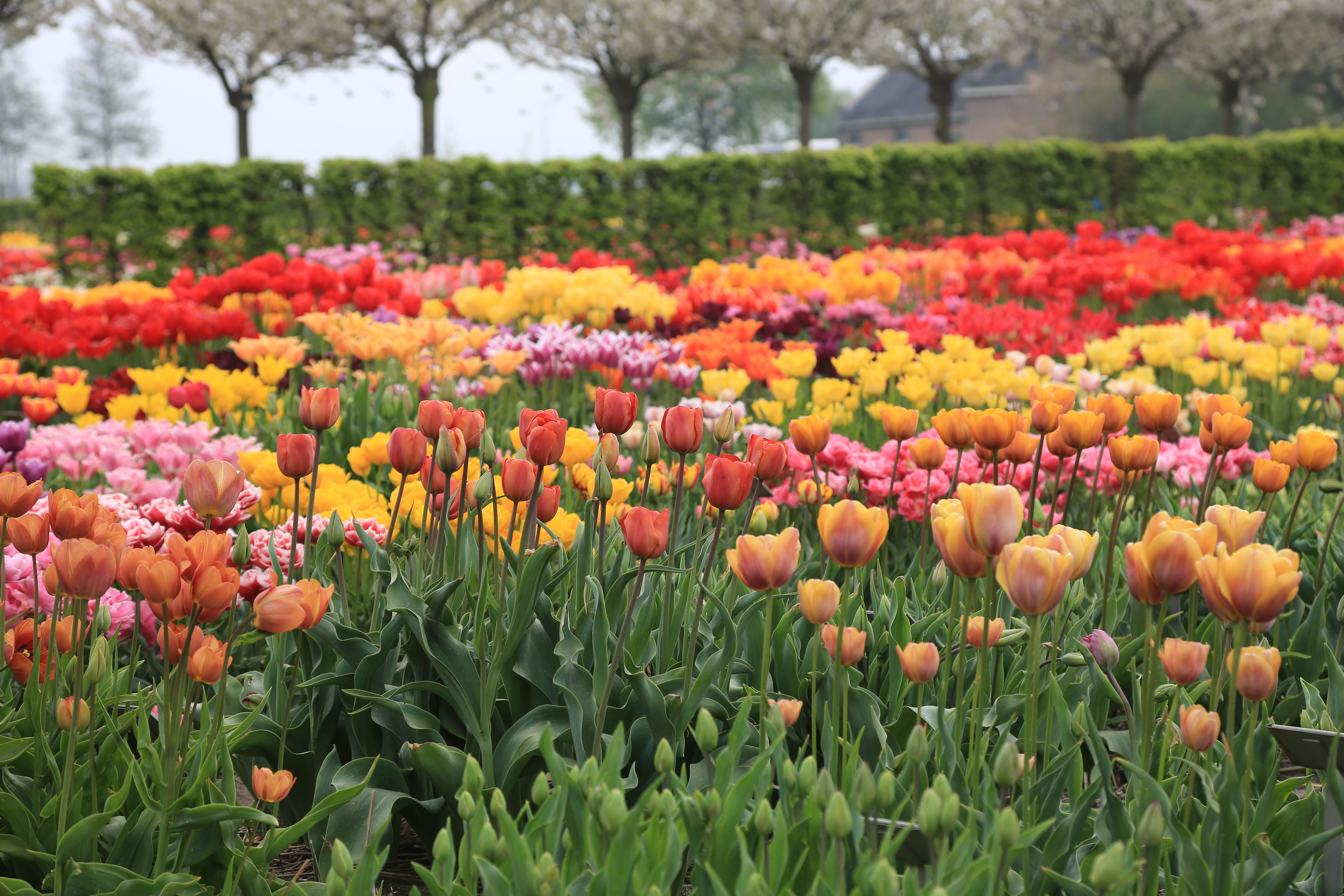 Hortus Bulborum, a Dutch foundation that conserves historic cultivars of spring flowering bulb- and tuber crops. Limmen, Noord-Holland, Netherlands.